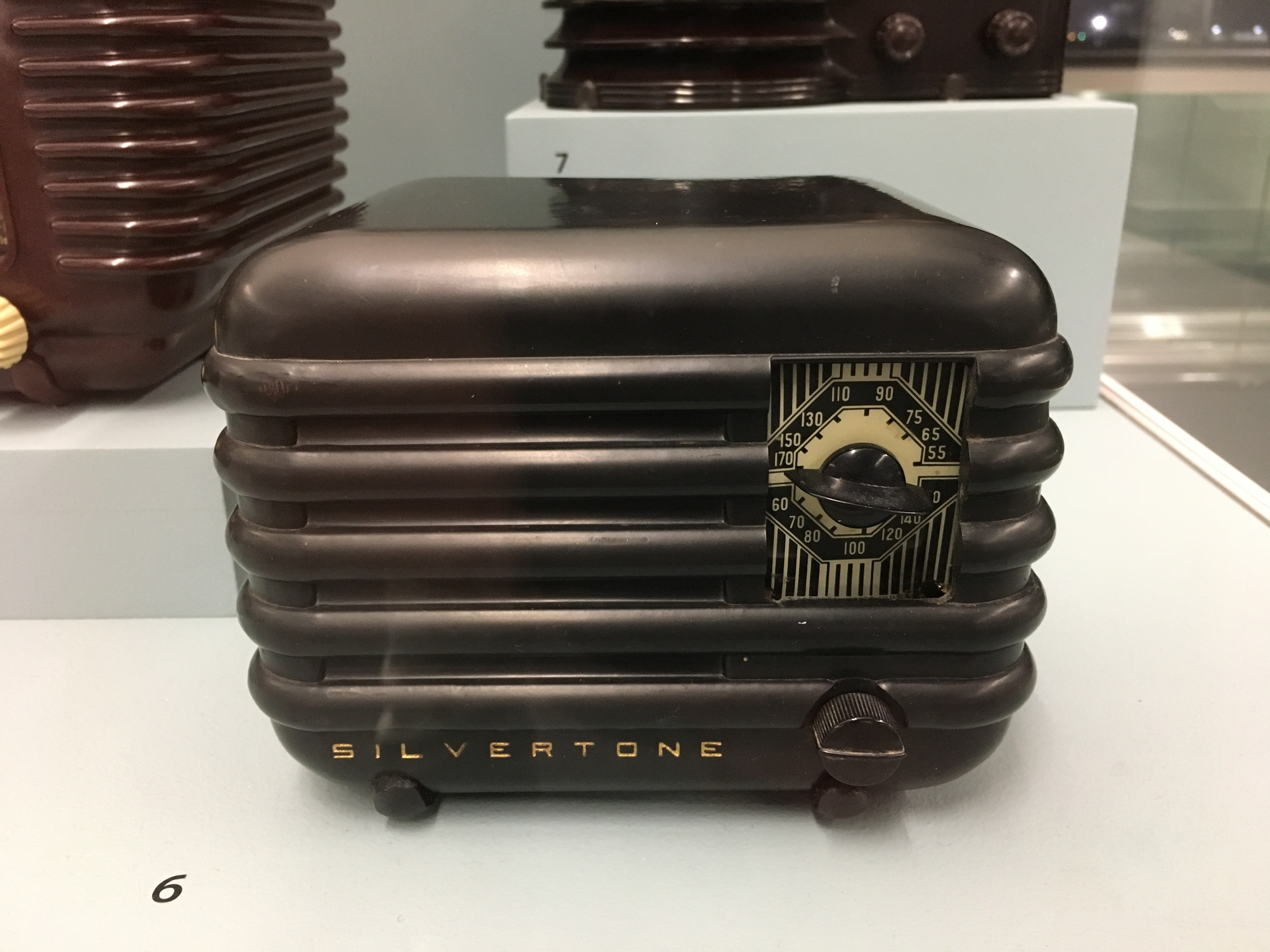 Detrola Silvertone 6402 (1937) radio. Manufactured by Detrola Radio and Television Company in Detroit, Michigan. Bakelite. On display at SFO Museum "On The Radio" exhibition in 2018.